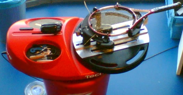 Tennis racquet string tension Appears to be some sort of Tecnifibre machine, like the one shown here.